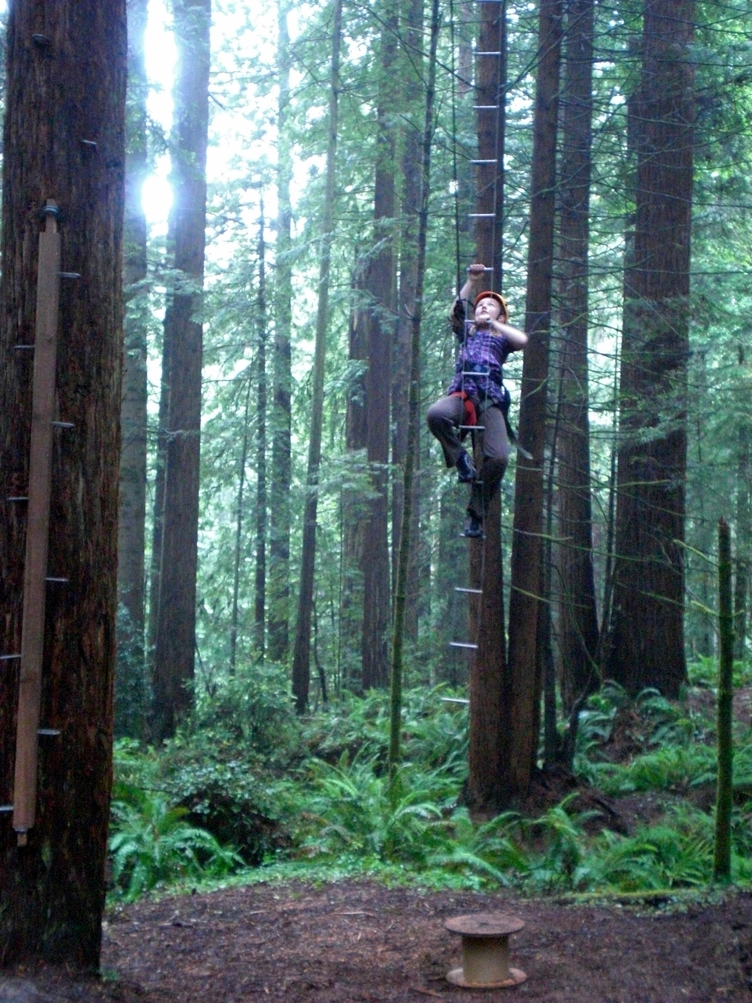 Climbing to new heights with the City of Arcata's Recreation Division. Arcata, CA Photo by:Cheyenne Gillett gillett8_ladder